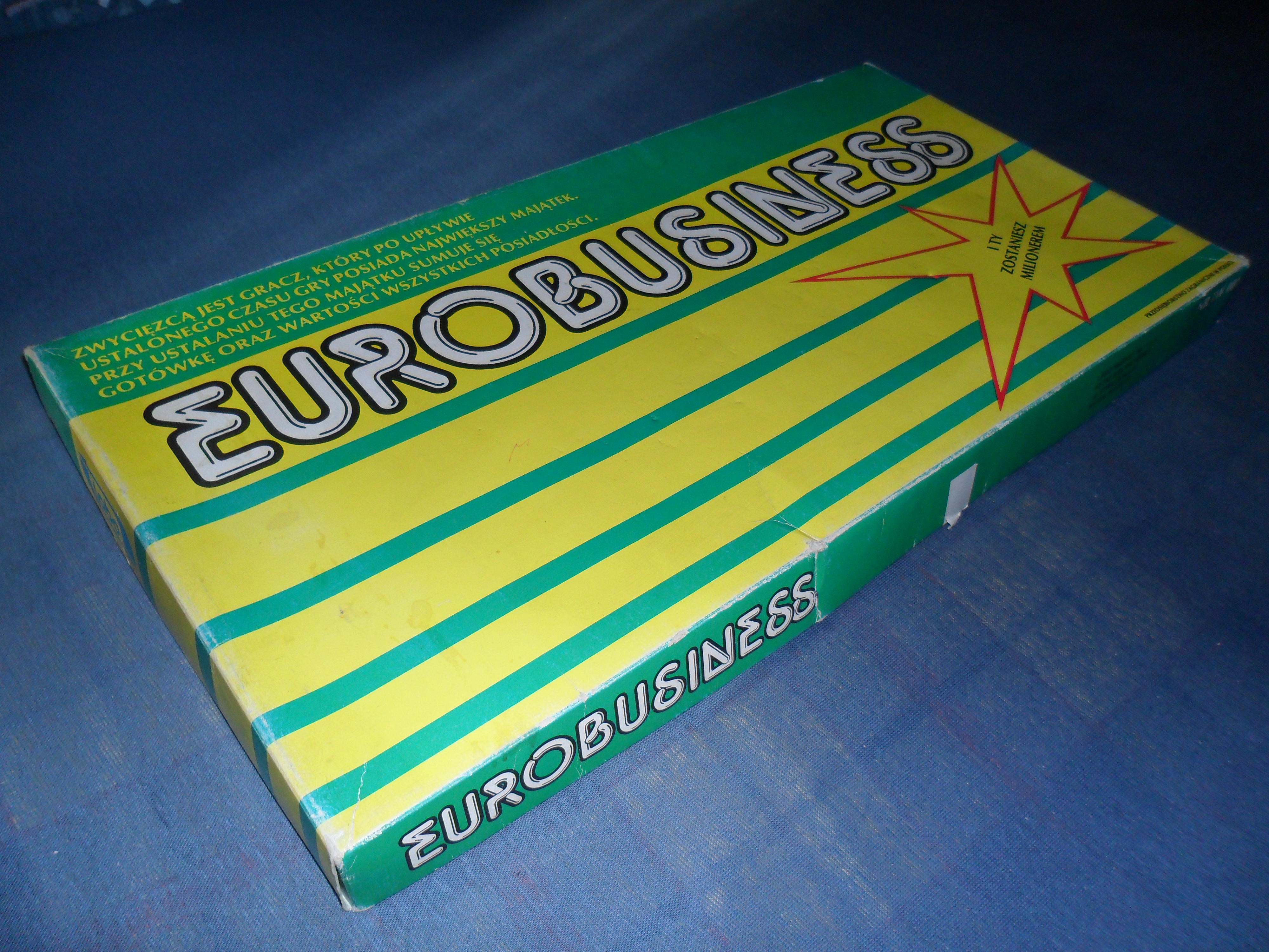 Board game Eurobusiness